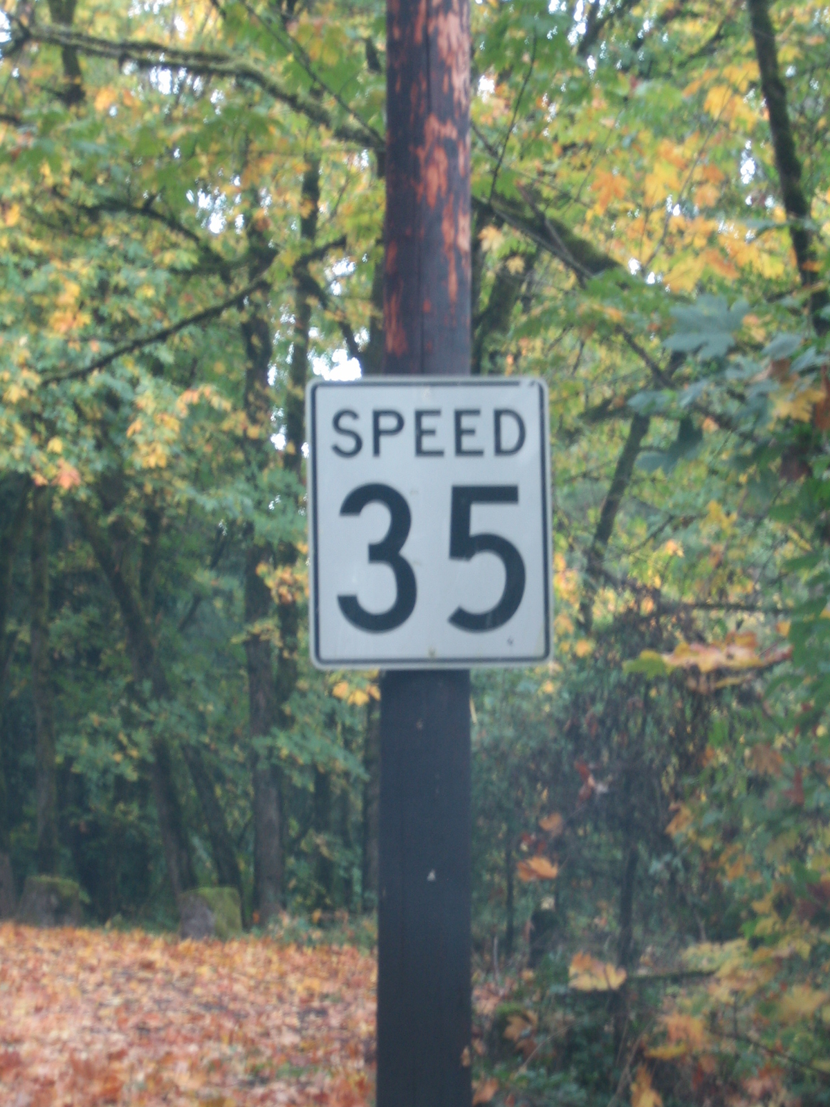 A typical Oregon-style speed law sign showing the unique number font necessary due to the extra space given when the word 'limit' is not included. This example can be found on NW Cornell Road near MacLeay Park in Portland.